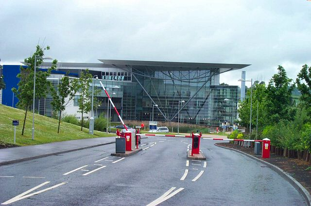 Met Office - Exeter. The main entrance to the Exeter Met Office. The Met Office has been a harbinger of economic expansion to Exeter and many parts of Devon. However, for most people this is as far as you get. There's lots of warning signs telling you politely to go away unless you are on official business.